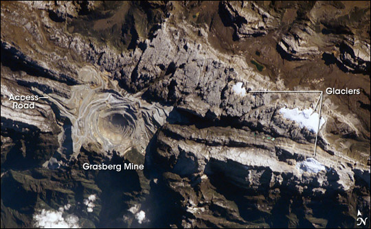 Astronaut photo of the Grasberg Mine in Papua province, Indonesia.